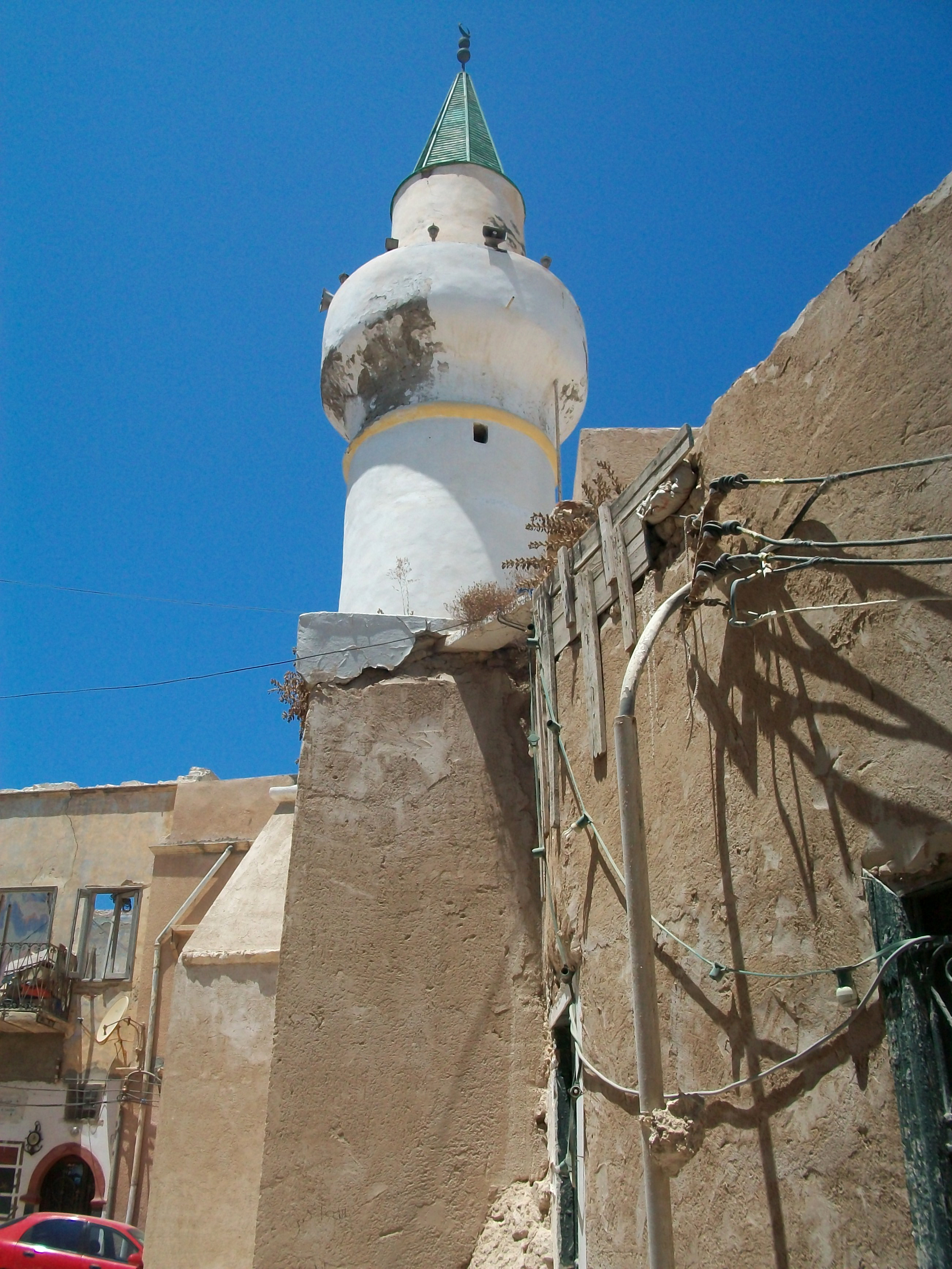 Sidi Salem Mosque in the medina of Libya's capital Tripoli.